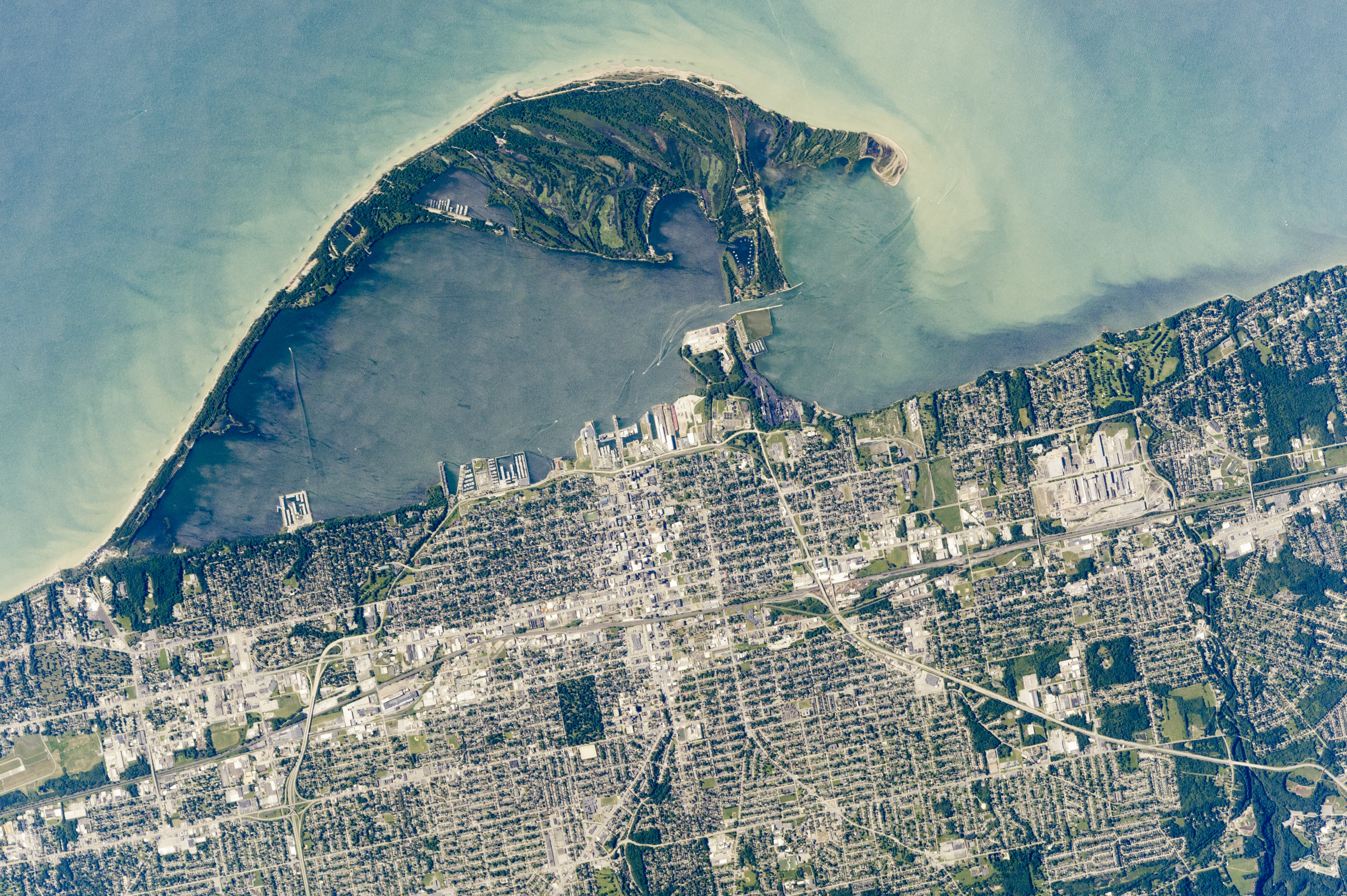 An astronaut aboard the International Space Station focused a long-lens camera on the southern coastline of Lake Erie. The curved peninsula of Presque Isle State Park juts into the Great Lake, while the city in the lower part of the image is the deep-water port of Erie, Pennsylvania. Several V-shaped wakes show boat traffic around the port. The lake water just offshore tends to be light-toned because significant river and beach sediment is regularly moved eastward by the action of wind and waves. The detailed image shows the swells made by these winds. Sediment has piled up to build this sand spit over thousands of years. Now covered with vegetation, Presque Isle State Park includes dozens of beach ridges—with each line representing a coastline from the past. The formation of the peninsula also has enclosed Presque Isle Bay, the site of modern port facilities. Because the sediment is constantly moved along the shore by waves, the exposed beach facing the lake has been protected from erosion. To do this, many short breakwaters (barriers) have been built just offshore for nearly the entire length of the beach.